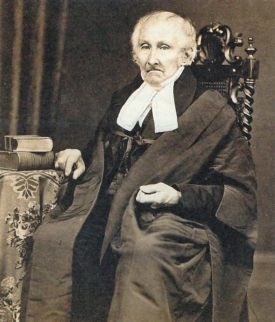 William Macpherson (bureaucrat) in, 1860 about the time of his retirement as Clerk of the New South Wales Legislative Council. Photo from NSW Parliamentary Archives.